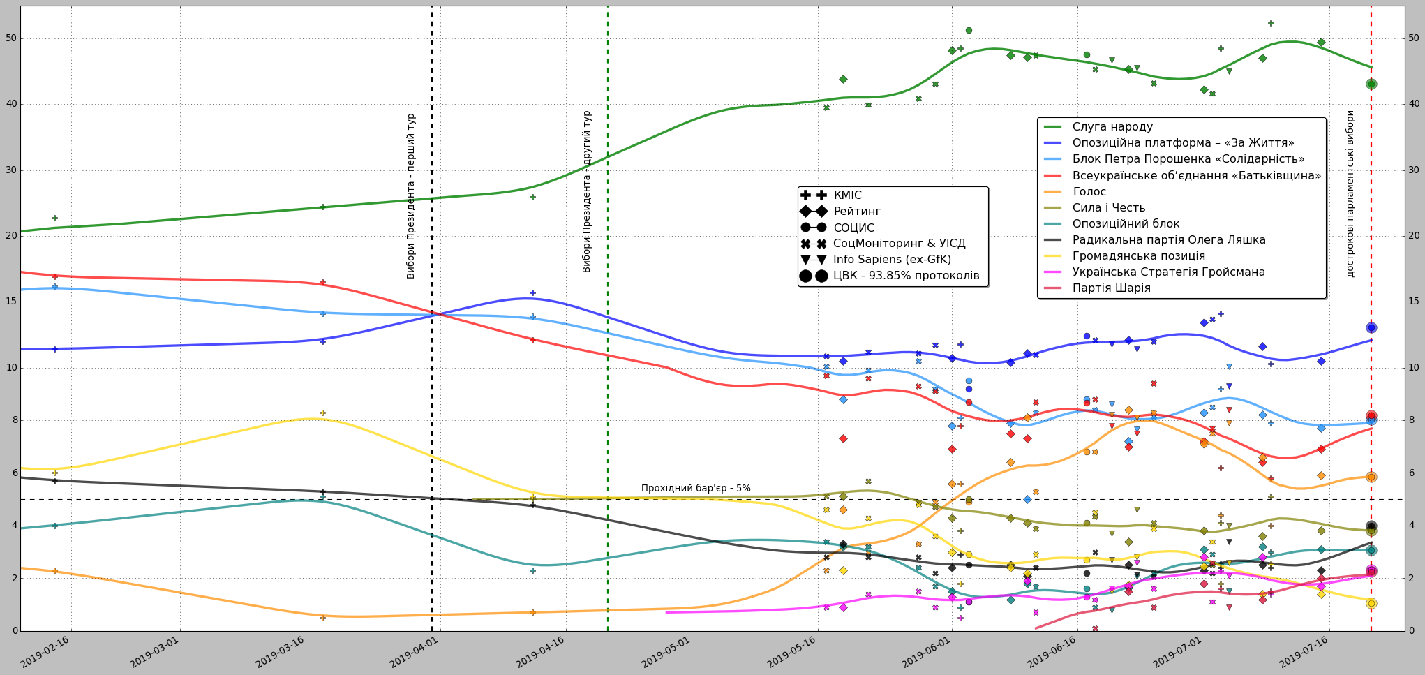 Political parties' ratings before the Ukrainian parliamentary elections of 2019